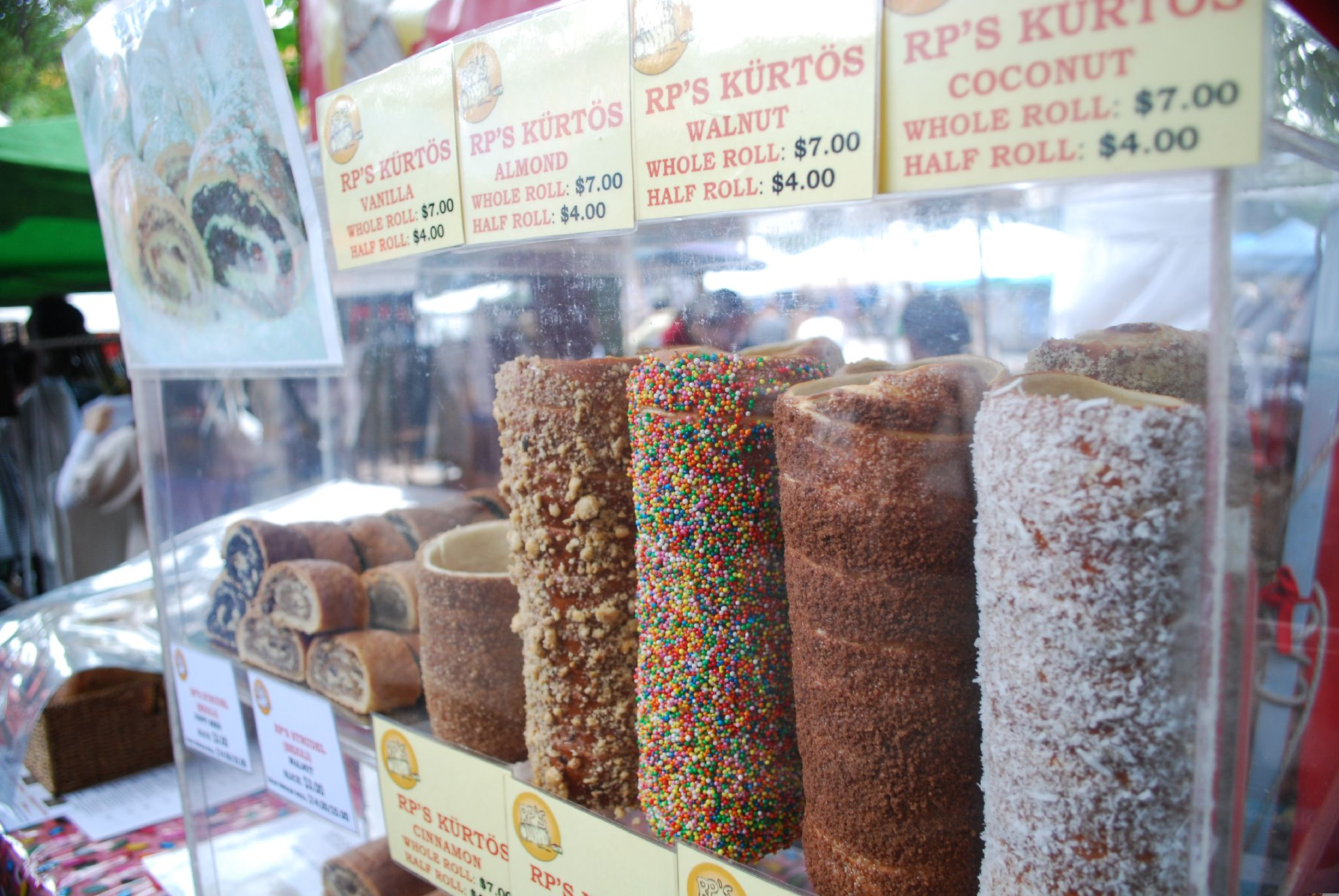 Kürtőskalács Glebe Saturday Market, Glebe Primary School